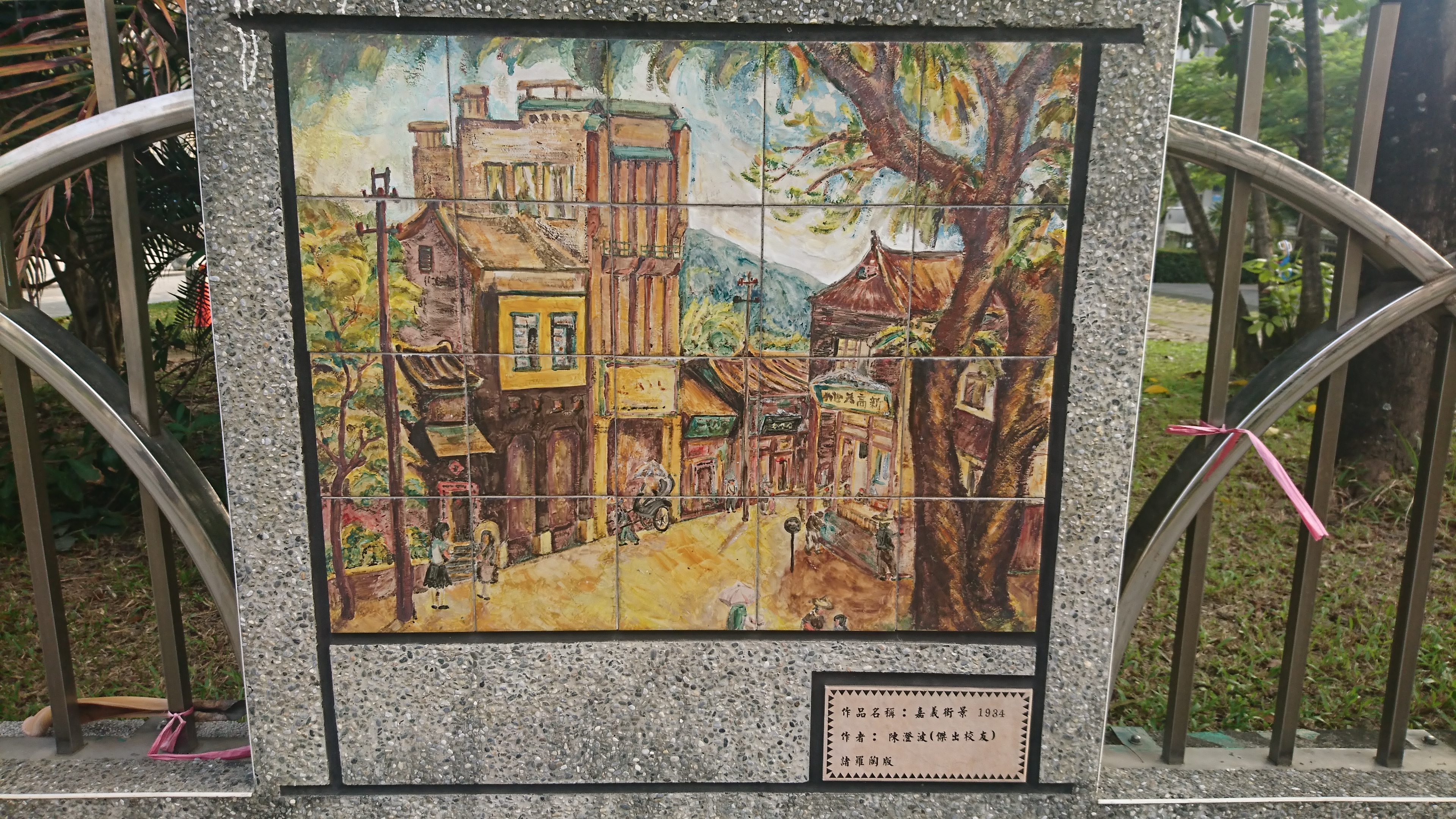 Street of Chiayi/ Chen Cheng-po/ 1934/ Canvas/ Oil painting/ 91×116.5cm/The wall of Chongwen Elementary School in Chiayi City, Taiwan is decorated with paintings of Chen Chengbo on the tiles: Chiayi Street View 1934